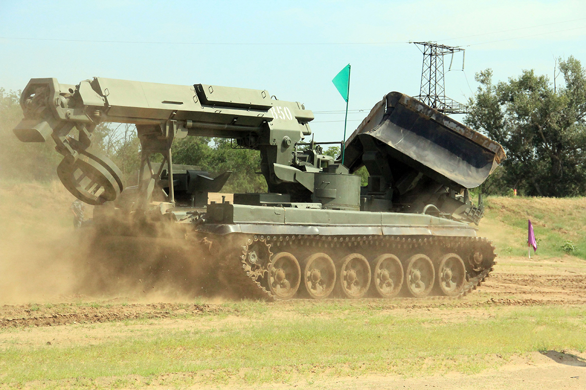 Engineering Formula 2018. IMR-2